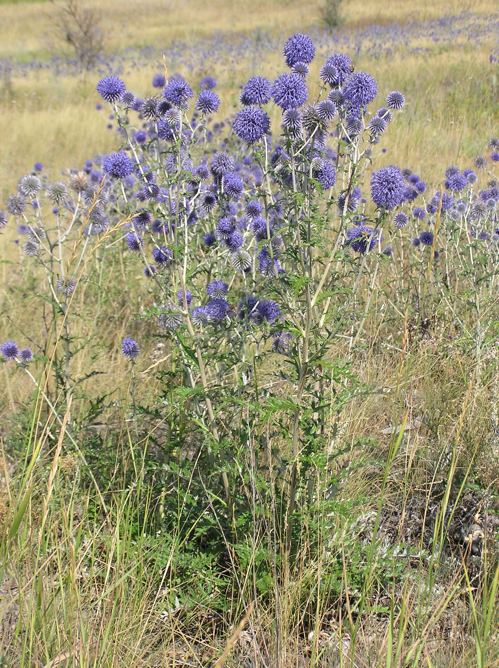 Russian globe thistle (Echinops ritro subsp. ruthenicus (M.Bieb.) Nyman). Habitat: saline steppe. Vicinity of Saratov city, Russia.